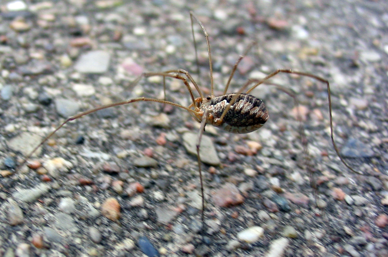 Harvestman in motion. Either (most probably) Phalangium opilio female or (very maybe??) Mitopus morio female. Location: no info nl: Hooiwagen in beweging de: Weberknecht - in der Bewegung aufgenommen